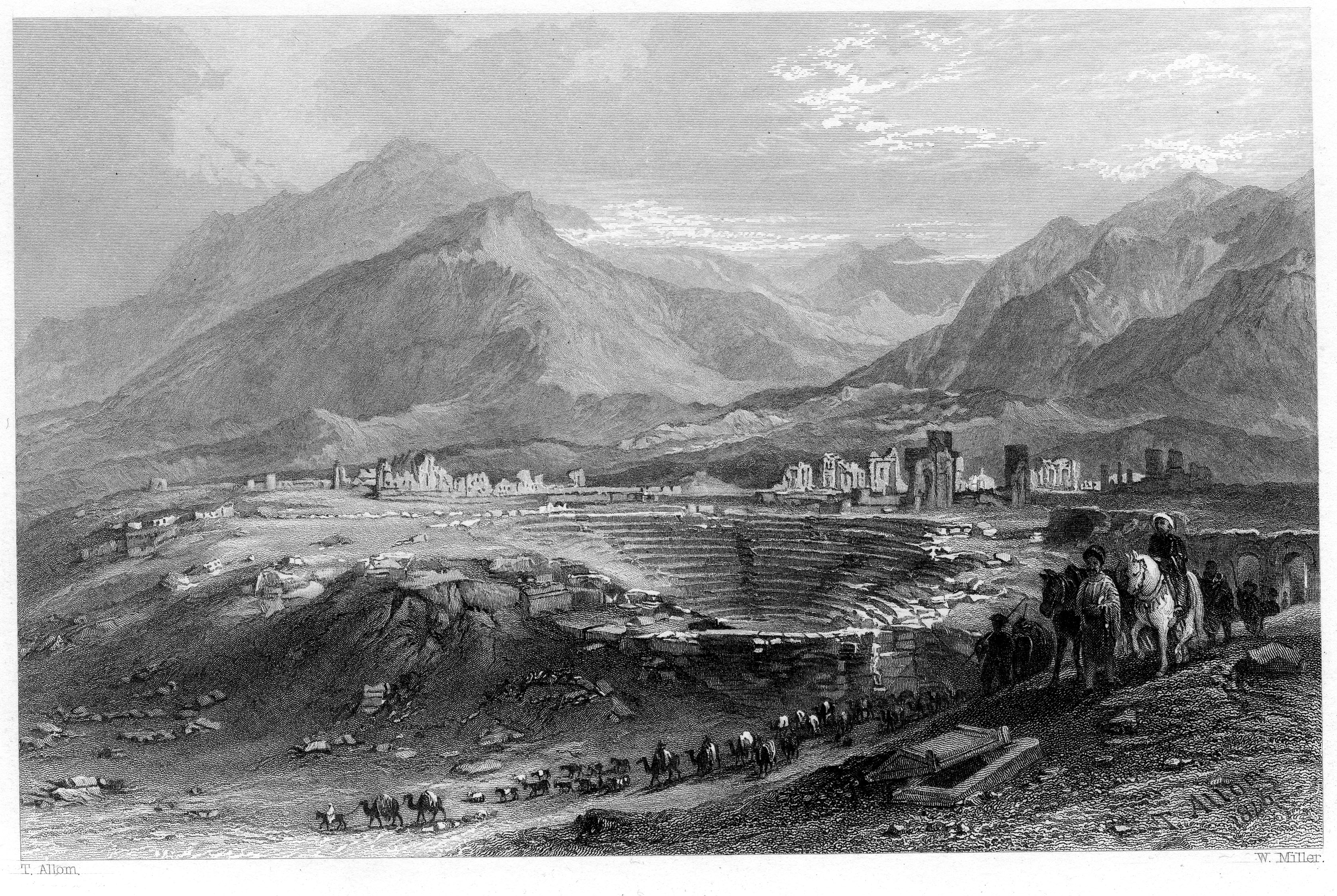 Ruins of Laodicea engraving by William Miller after T Allom